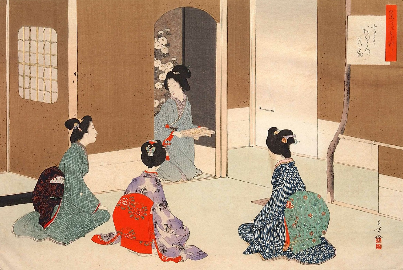 Hostess greeting her guests of the tea ceremony, from the series A Tea Ceremony Periwinkle, woodblock print